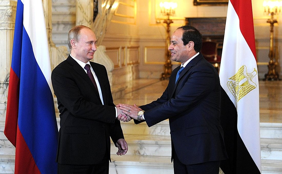 With President of the Arab Republic of Egypt Abdel Fattah el-Sisi.